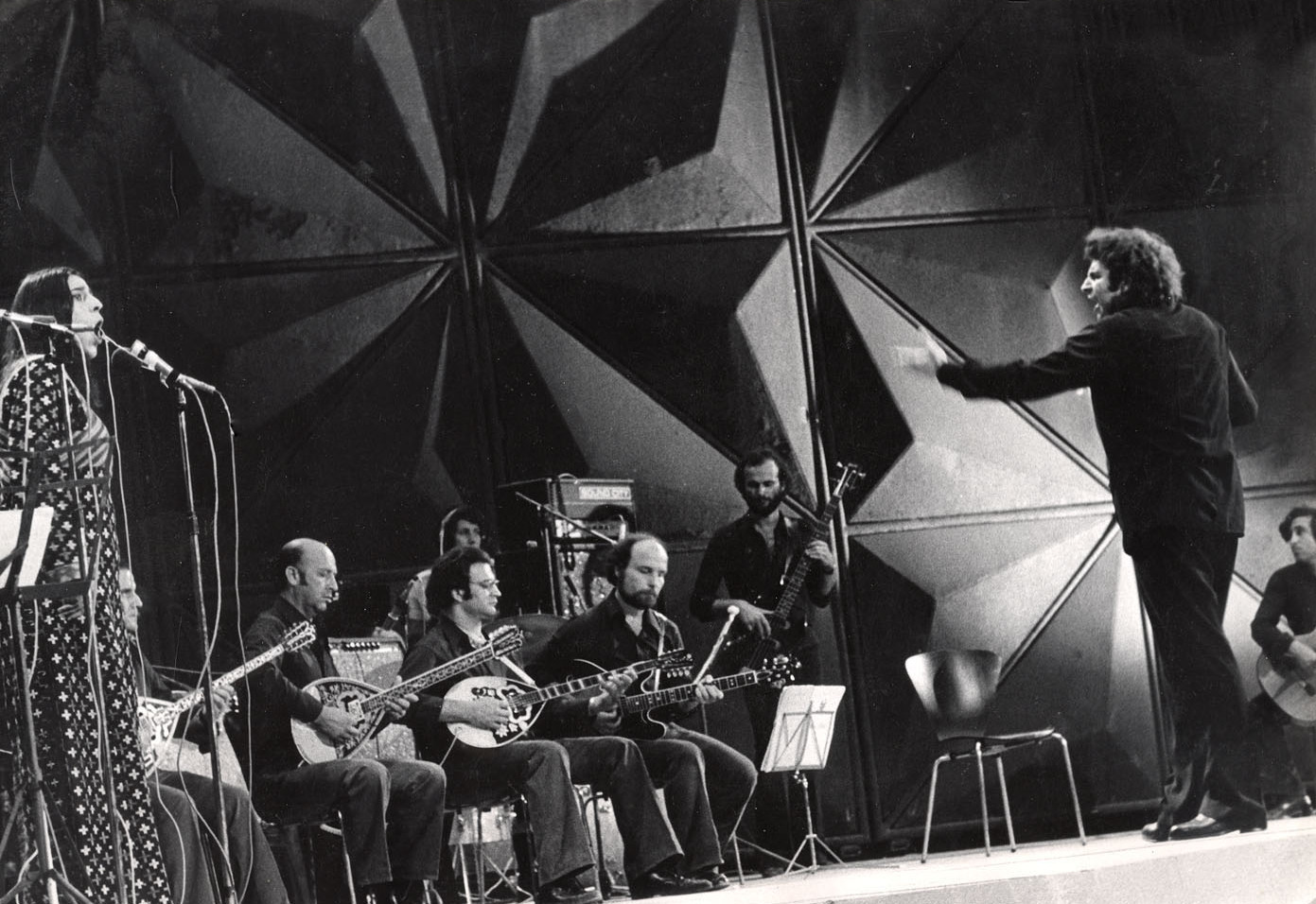 Theodorakis concert in the Roman Amphitheater in Caesarea Israel, early 1970s with Maria Farantouri.